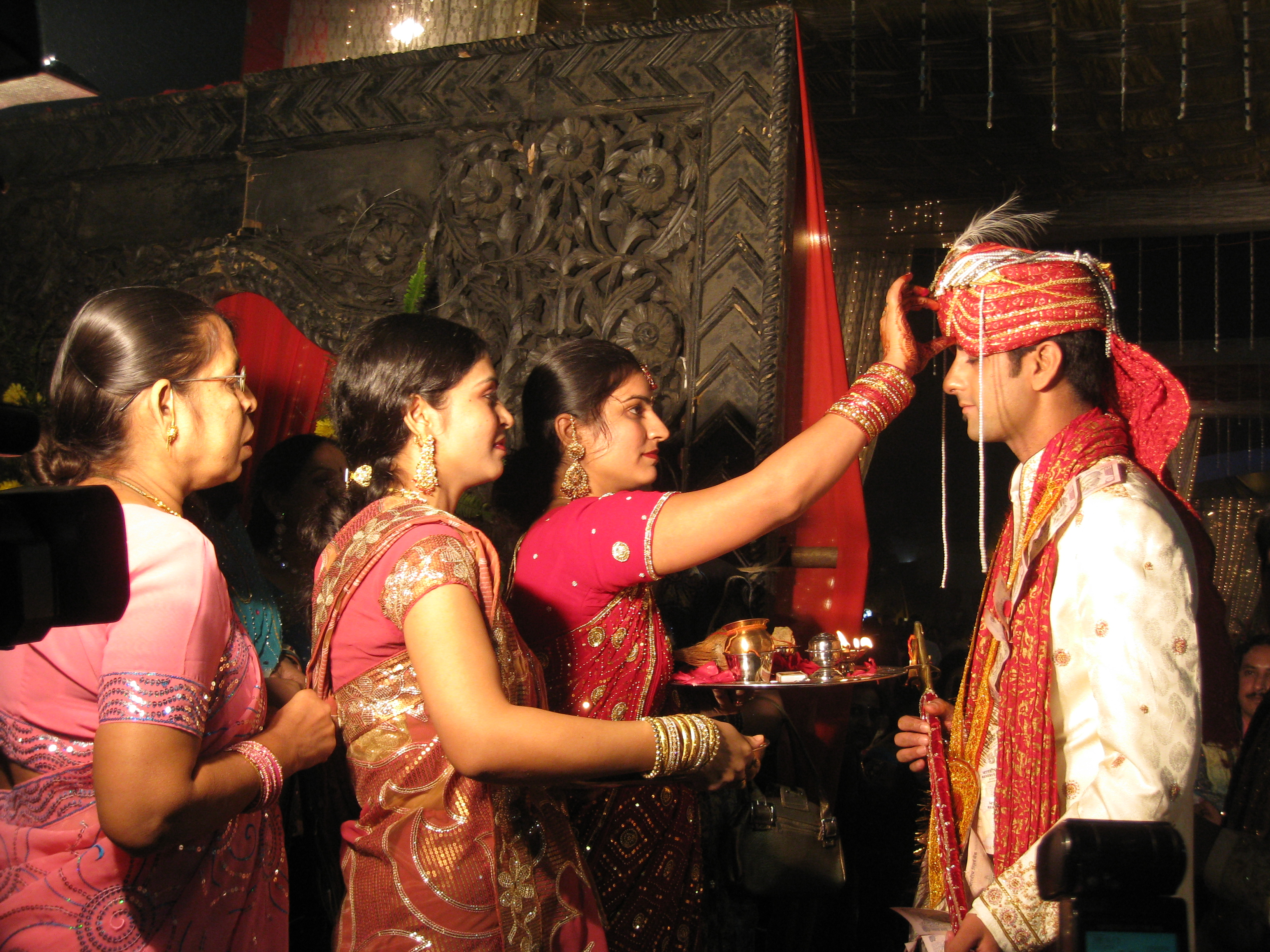 An aarti swagatham Hindu wedding ritual in progress